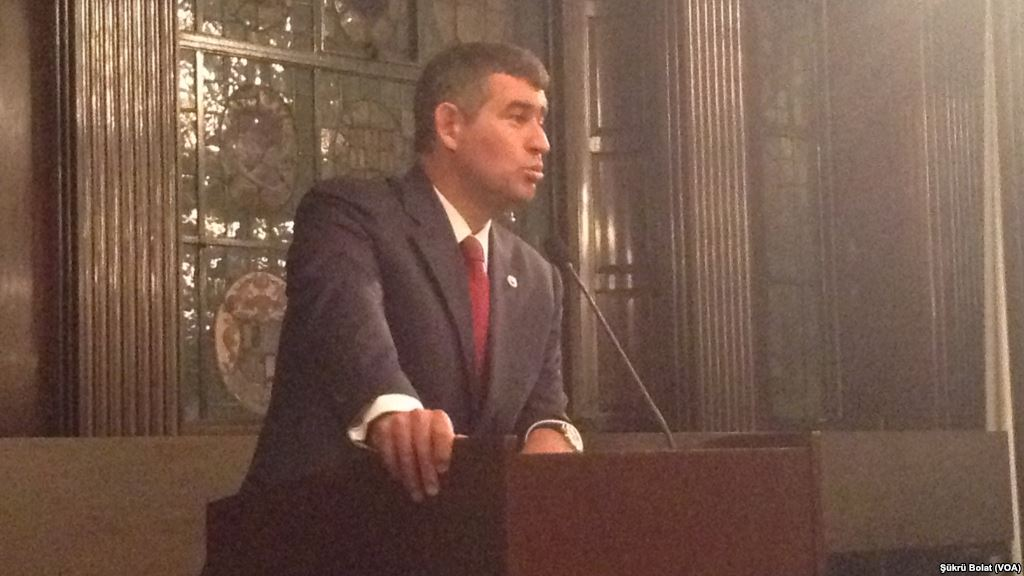 Metin Feyzioğlu, 8th President of the Turkish Bars Association